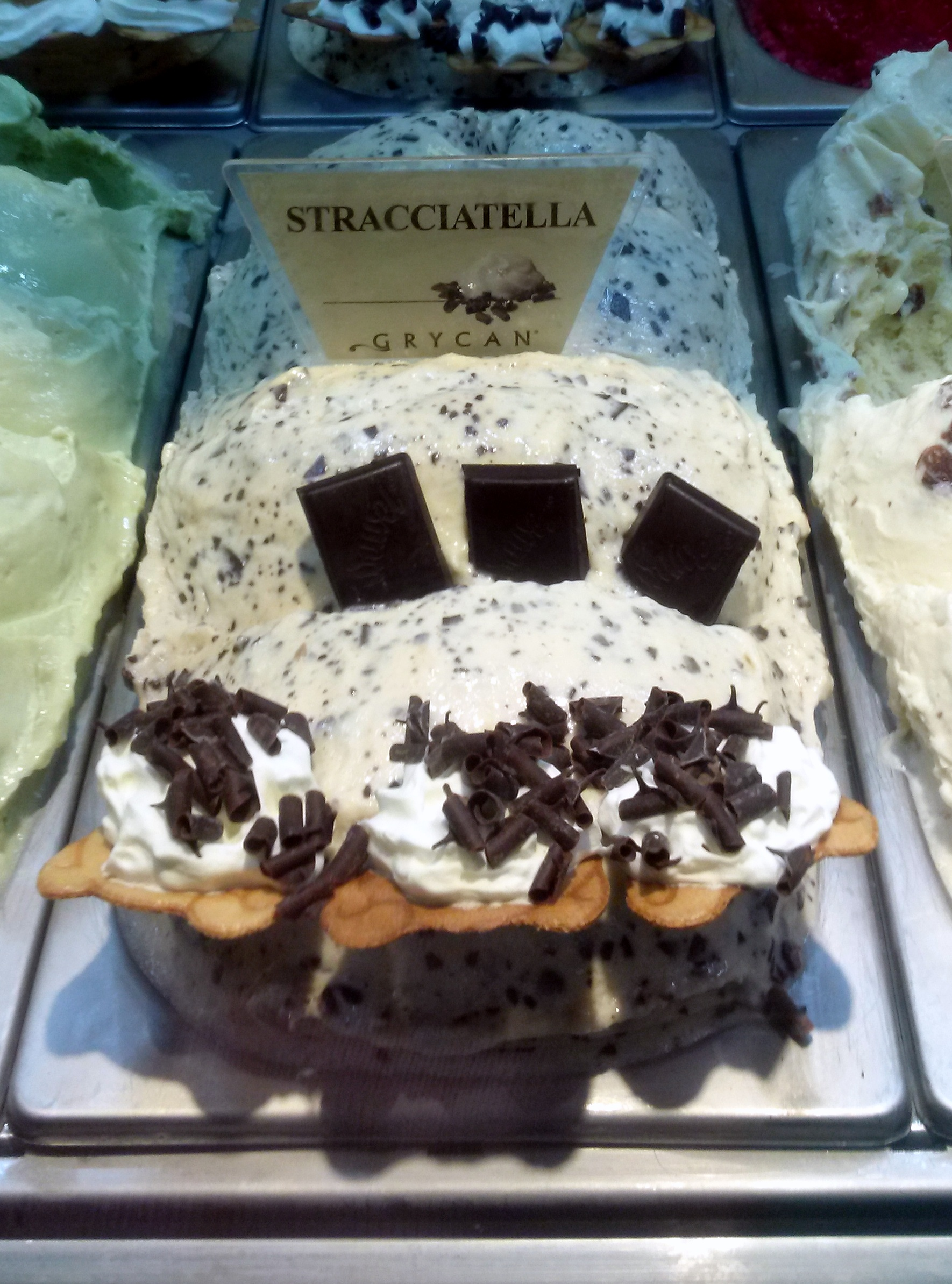 Stracciatella